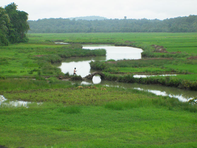 Rice fields